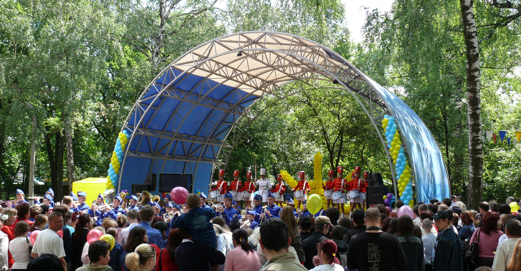 Kharkov children's railways